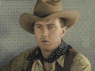 Eddie Parker, from the public domain movie The Lucky Texan (1934).